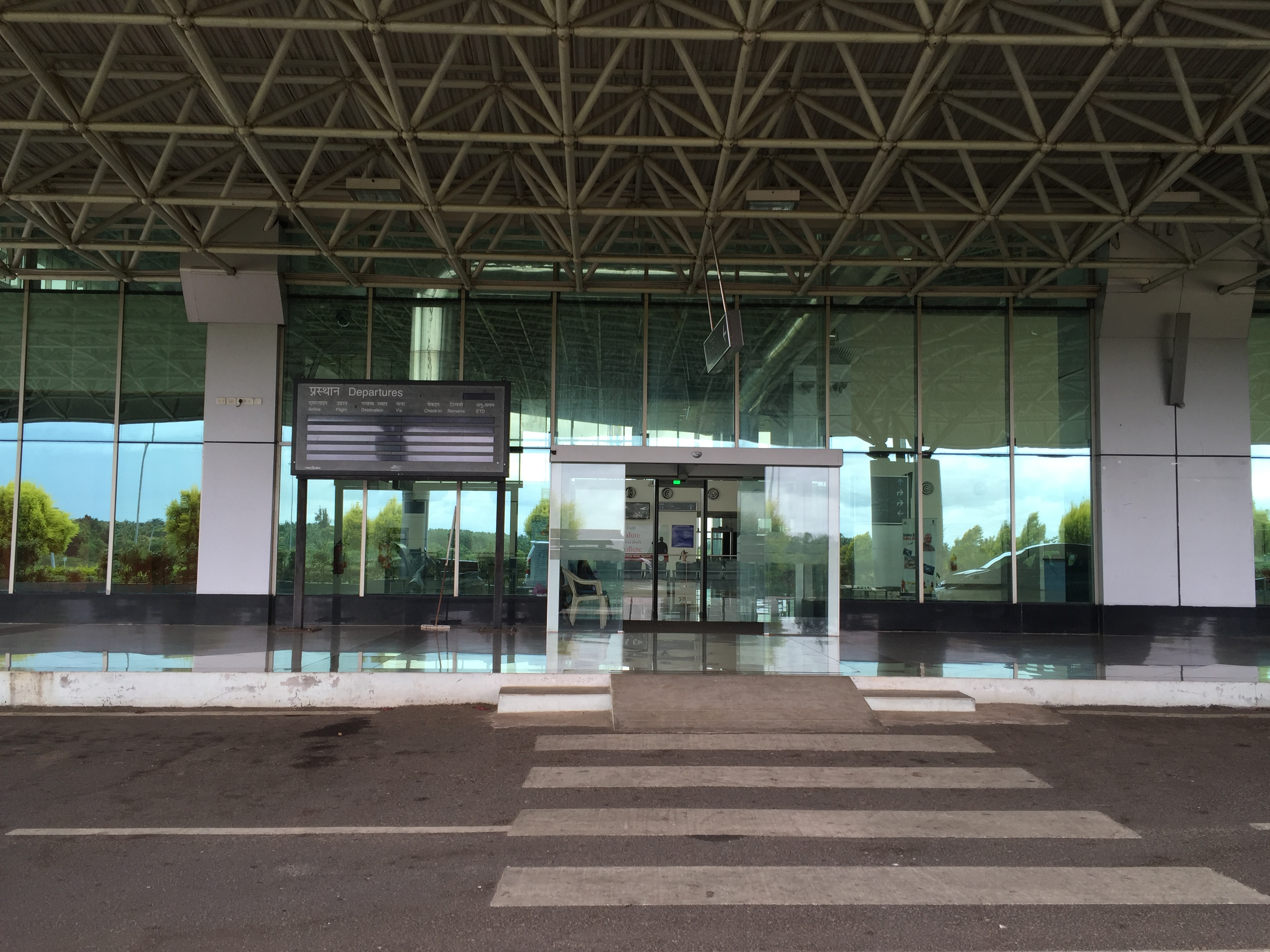 Entrance to departures area of terminal at Mysore Airport, India